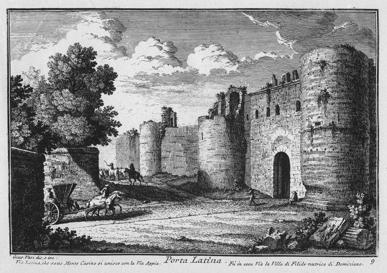 1) Entrance to the Monastery; 2) S. Maria in Aracoeli; 3) Façade of the church; 4) Part of Palazzo Nuovo.